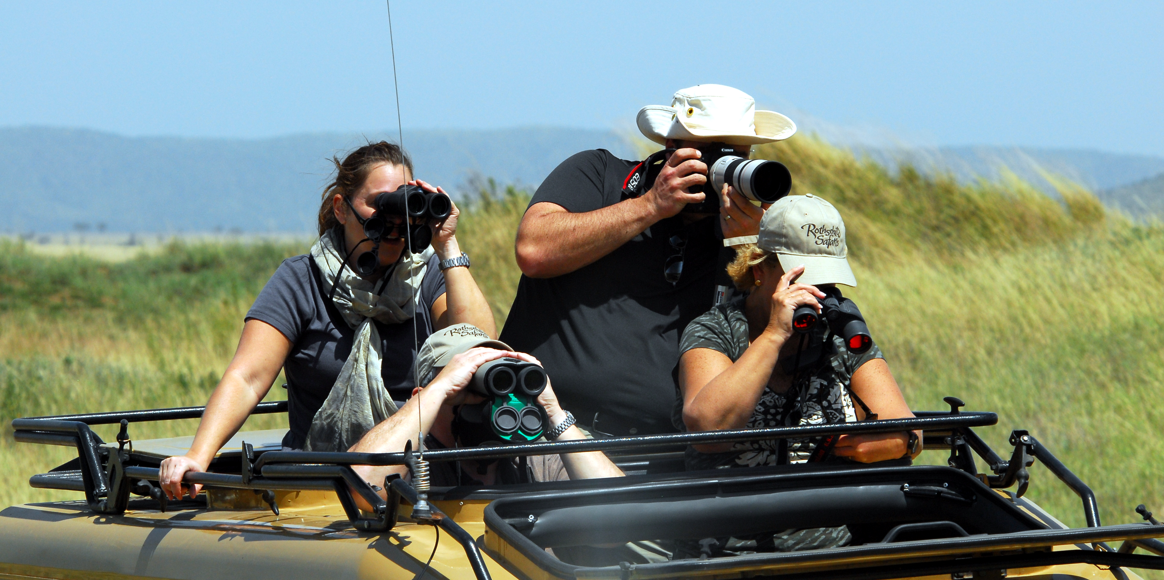 Tourist in the Serengeti NP (Tanzania) looking at Lions. Close to Seronera.